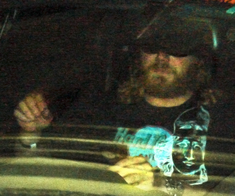 Ryan Dunn (poor-quality crop from larger image)